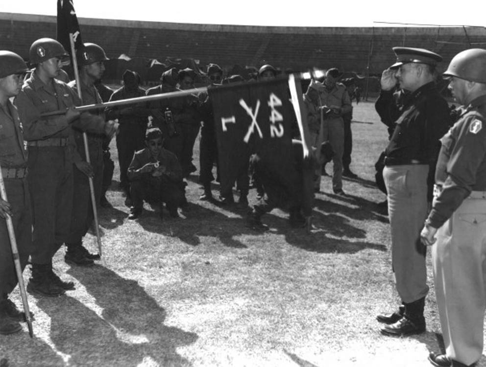 Lt. General Lucian Truscott of the 5th Army salutes after fastening the Presidential Distinguished Unit Citation Banner to the guidon of Co. L, 3rd Battalion, 442nd RCT at a ceremony in Leghorn, Italy.